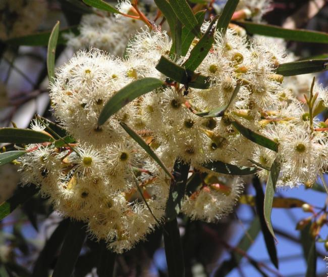 Foliage and flowers of Eucalyptus cylindriflora growing near the Old Newdegate Rd., Lake King, Western Australia